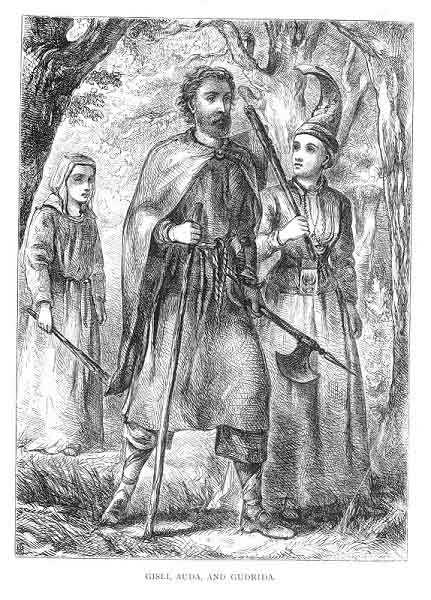 Gisle Sursson with his wife Aud and their daughter Gudrid